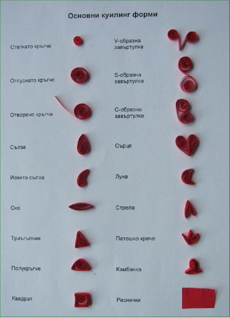 picture